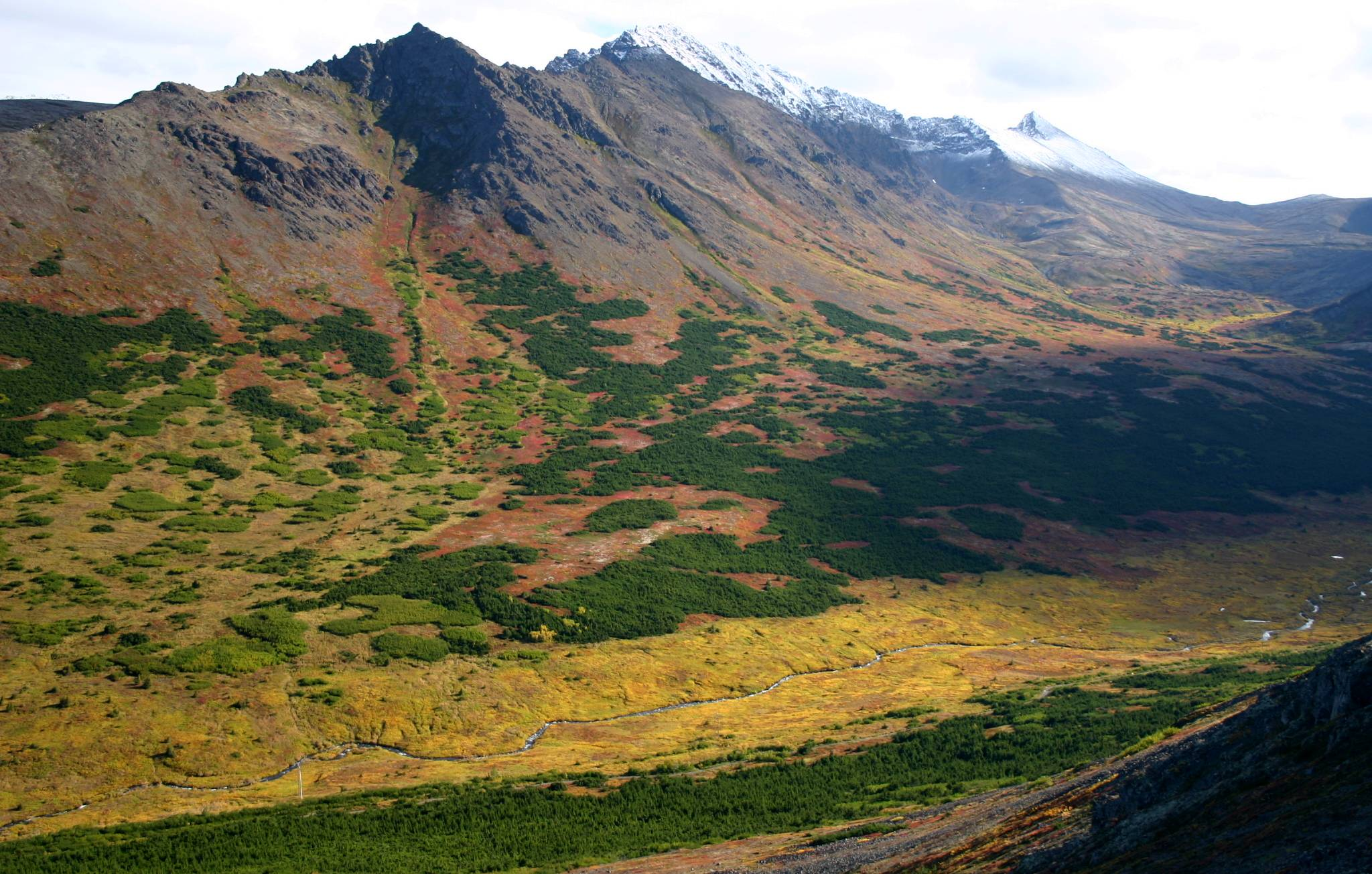 Taken from near Flattop Mountain, Chugach State Park, Alaska in September 2007